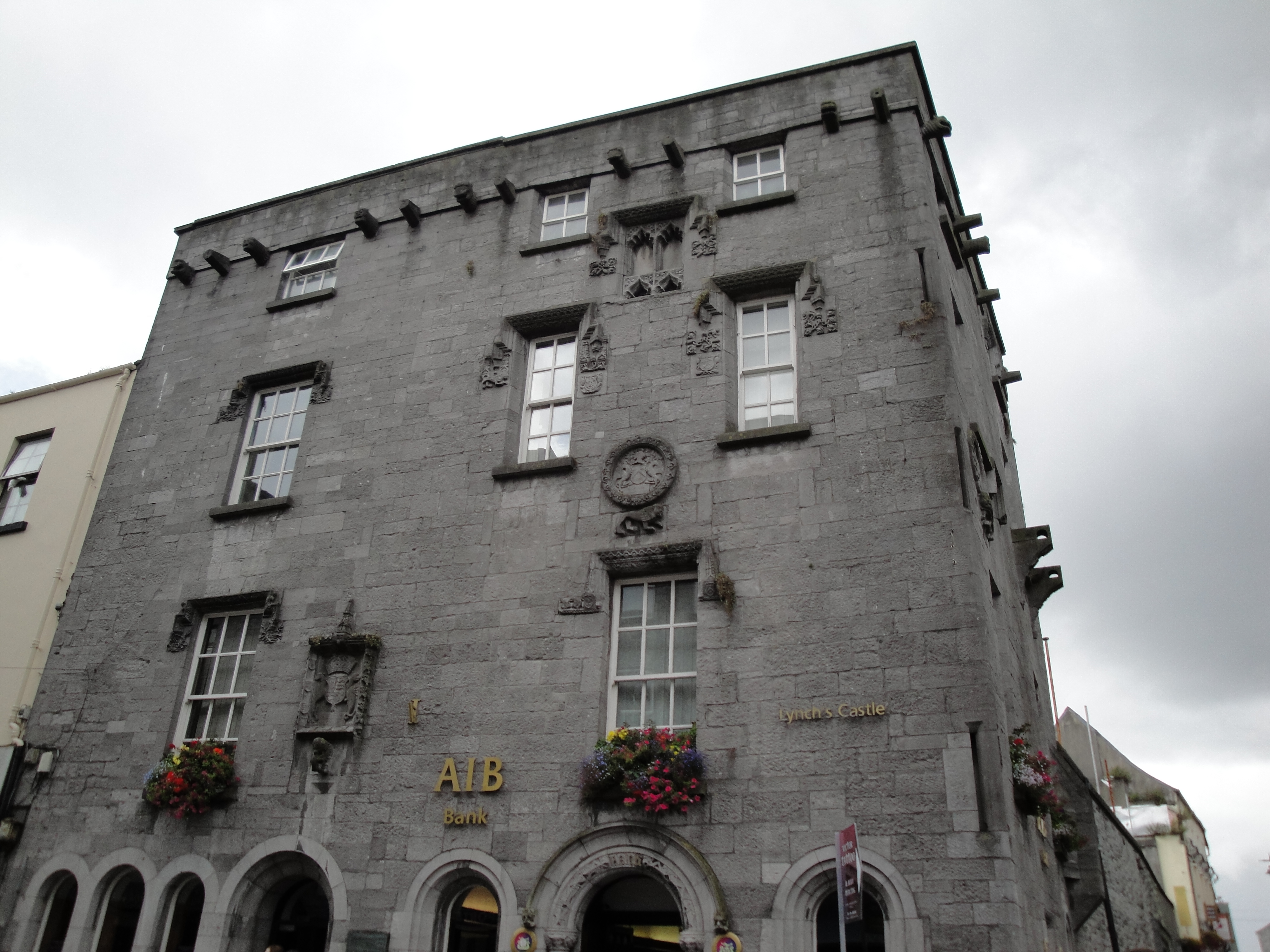 "The historic home of Galway's most powerful (medieval) family." A "town castle" built in the 16th century. Its facade features the arms of the Lynch family, one of the Anglo-Norman ruling families of Galway City, and Henry VII.